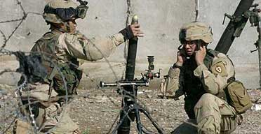 Infantrymen from 1st Battalion, 24th Infantry Regiment (Deuce Four) fire mortars at enemy locations during the Mosul Counter Offensive, November 2004